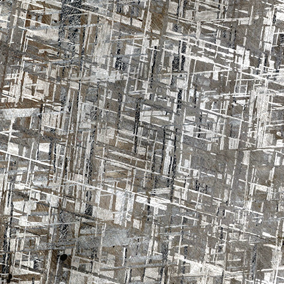 Original description: Widmanstätten texture in the surface of an etched meteorite from the Gibeon cluster, Namibia.